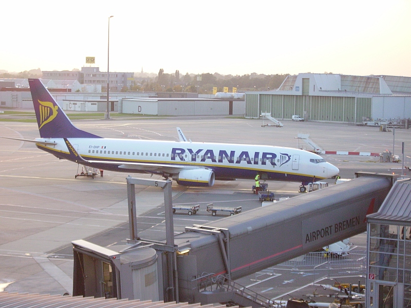 A Boeing 737 of Ryan Air at the airport of Bremen, Germany